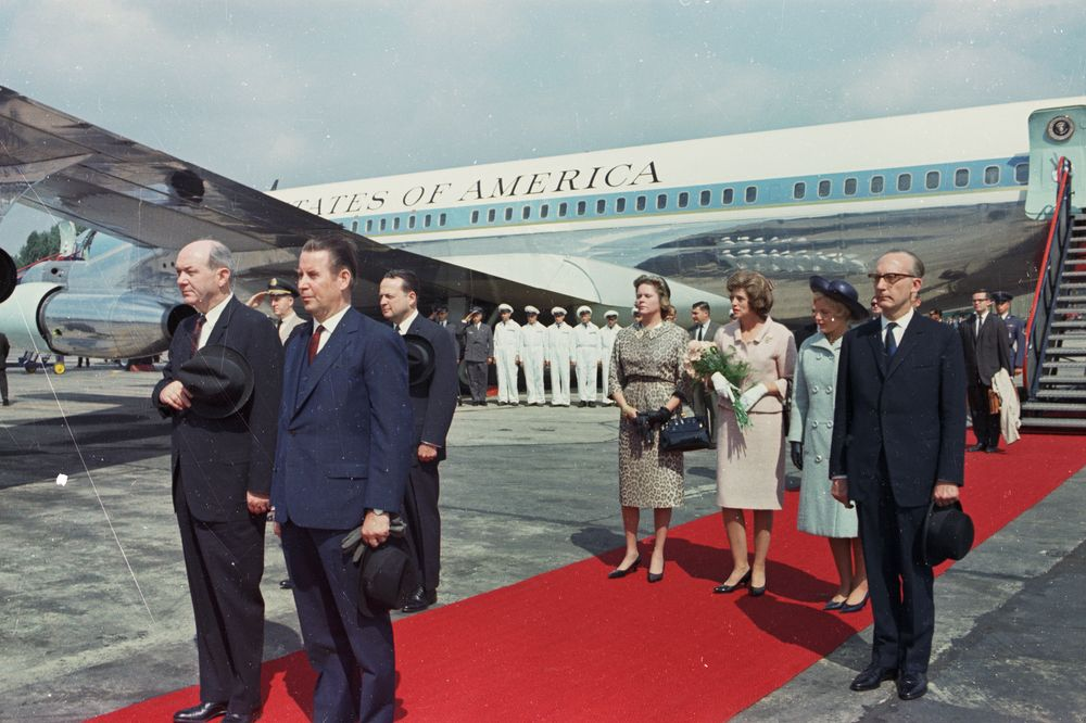 Arrival ceremony for President John F. Kennedy at Wahn Airport in Bonn, West Germany (Federal Republic). Standing on red carpet (L-R): U.S Secretary of State Dean Rusk; Minister of Foreign Affairs of Germany, Gerhard Schröder; Cecilia McGhee; Eunice Kennedy Shriver; Libeth Werhahn, daughter of Chancellor of West Germany, Konrad Adenauer; Special Counsel to the President, Theodore C. Sorensen (near airplane stairs). Flanking the red carpet: U.S. Ambassador to West Germany, George C. McGhee (left); Chief of Protocol of the German Ministry of Foreign Affairs, Ehrenfried von Holleben. Also pictured: Military Aide to President Kennedy, General Chester V. Clifton; White House Press Secretary, Pierre Salinger. Air Force One sits in the background. [Scratches on left side of image are original to the negative.]